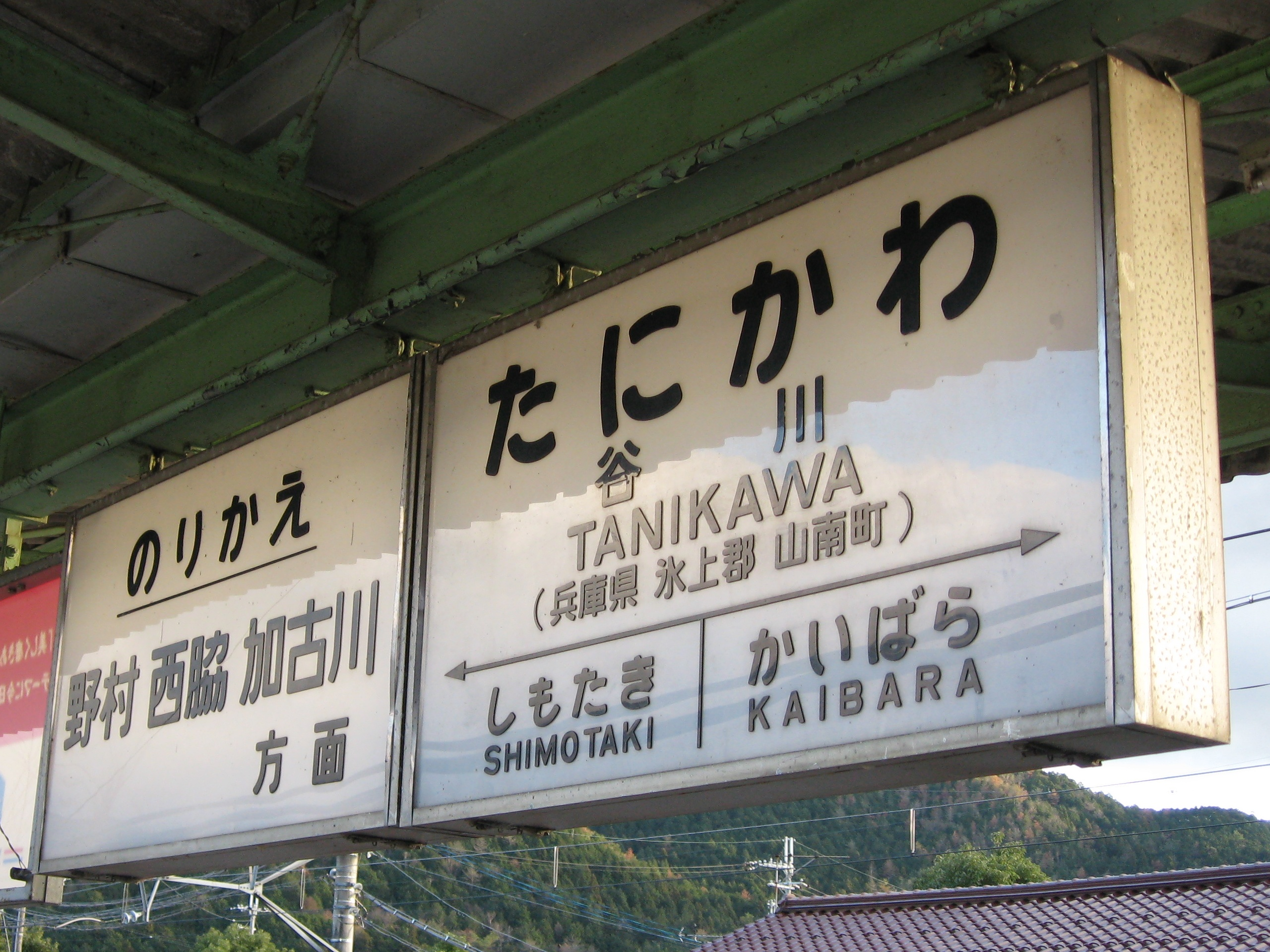 JNR Nameplate of JR Tanikawa Station